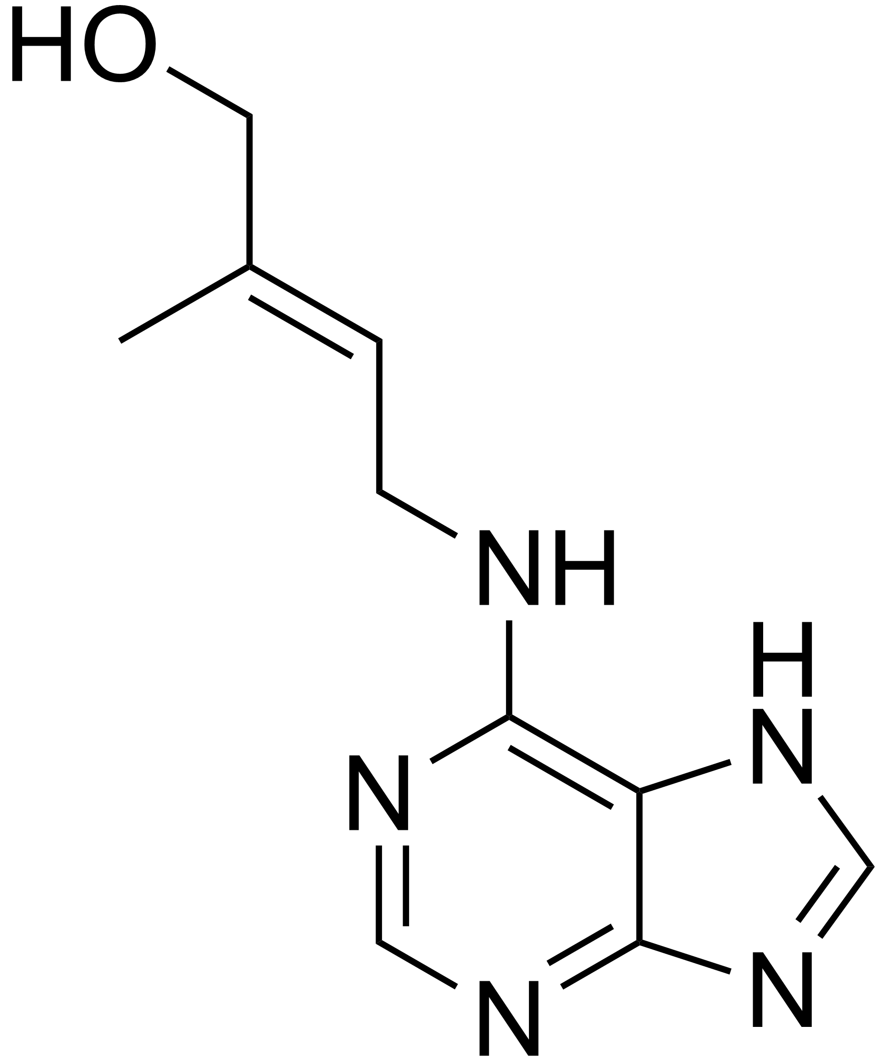 chemical structure of zeatin